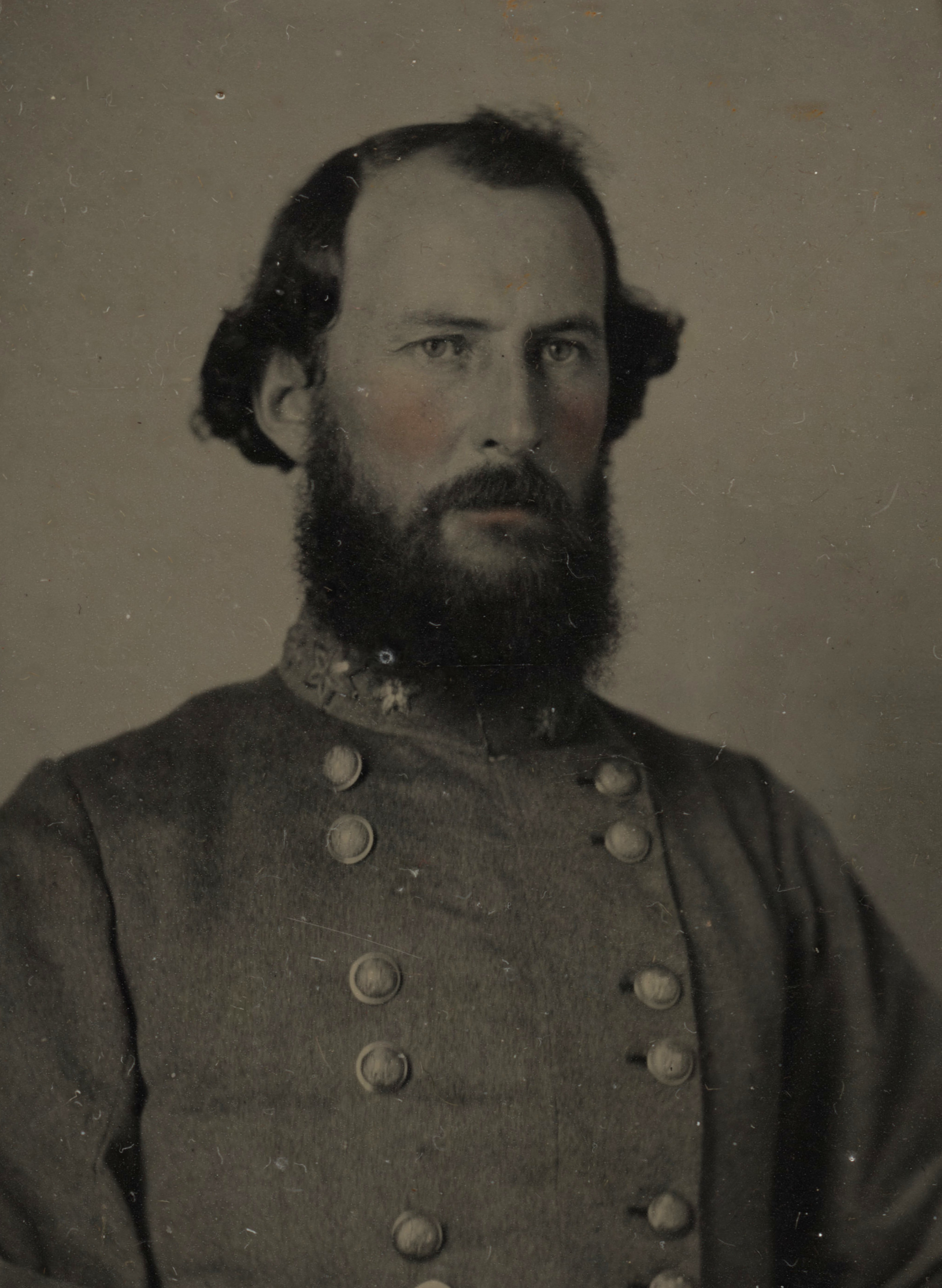 Bryan Grimes, UNC Libraries